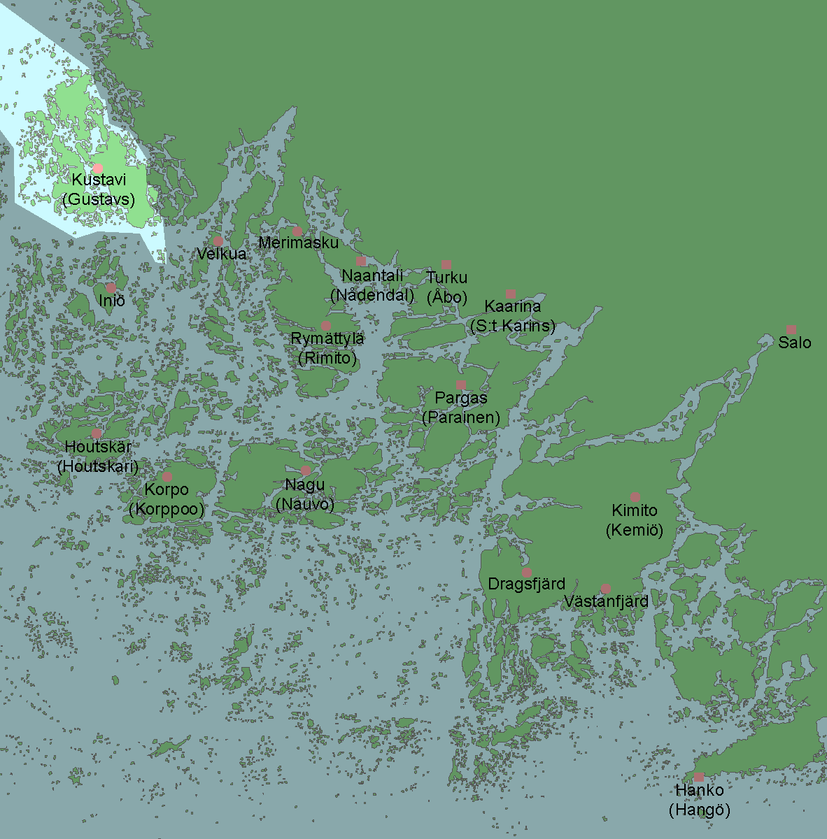 Location of the municipality of Kustavi within the Finnish Archipelago Sea